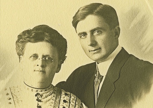 Los Angeles businesswoman Margaret J. Anderson and son Stanley.